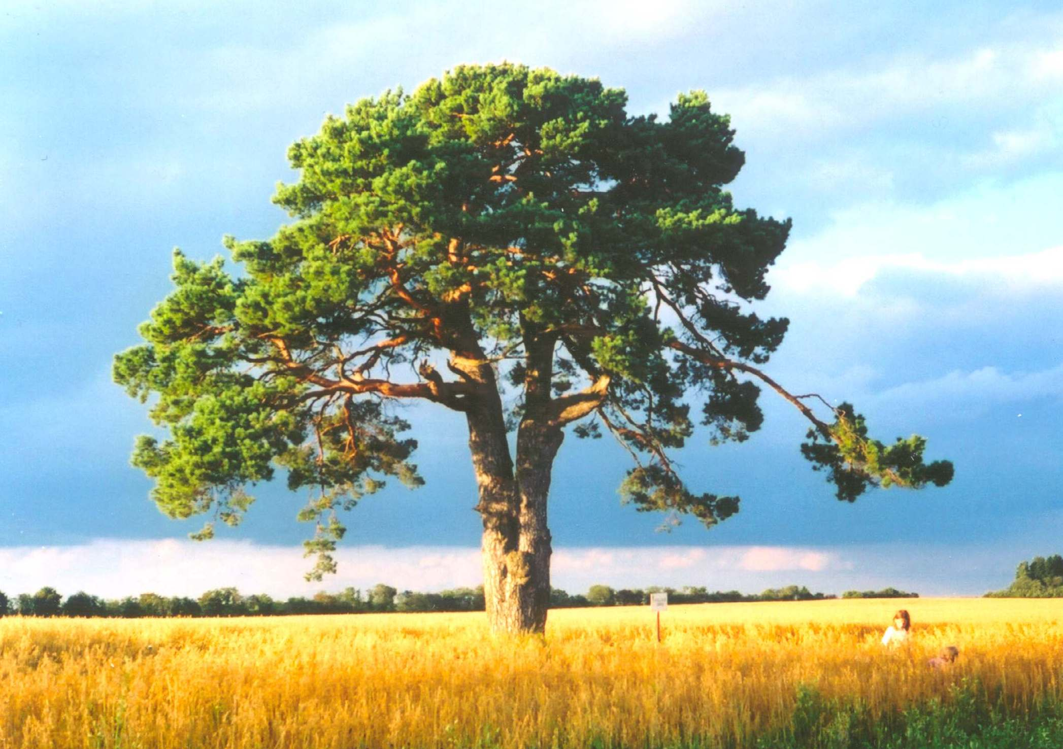 Kallukse Pine